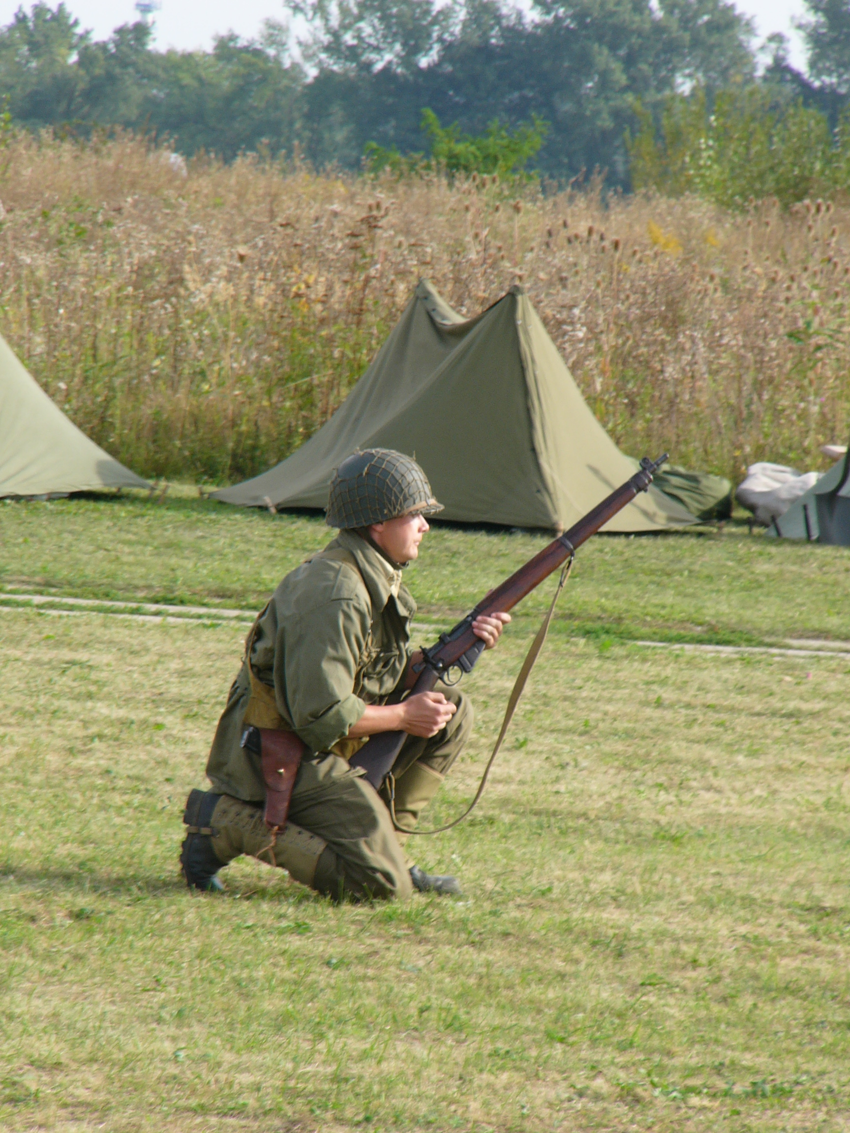 Rifleman - allied soldier from reconstruction of World War II battle.